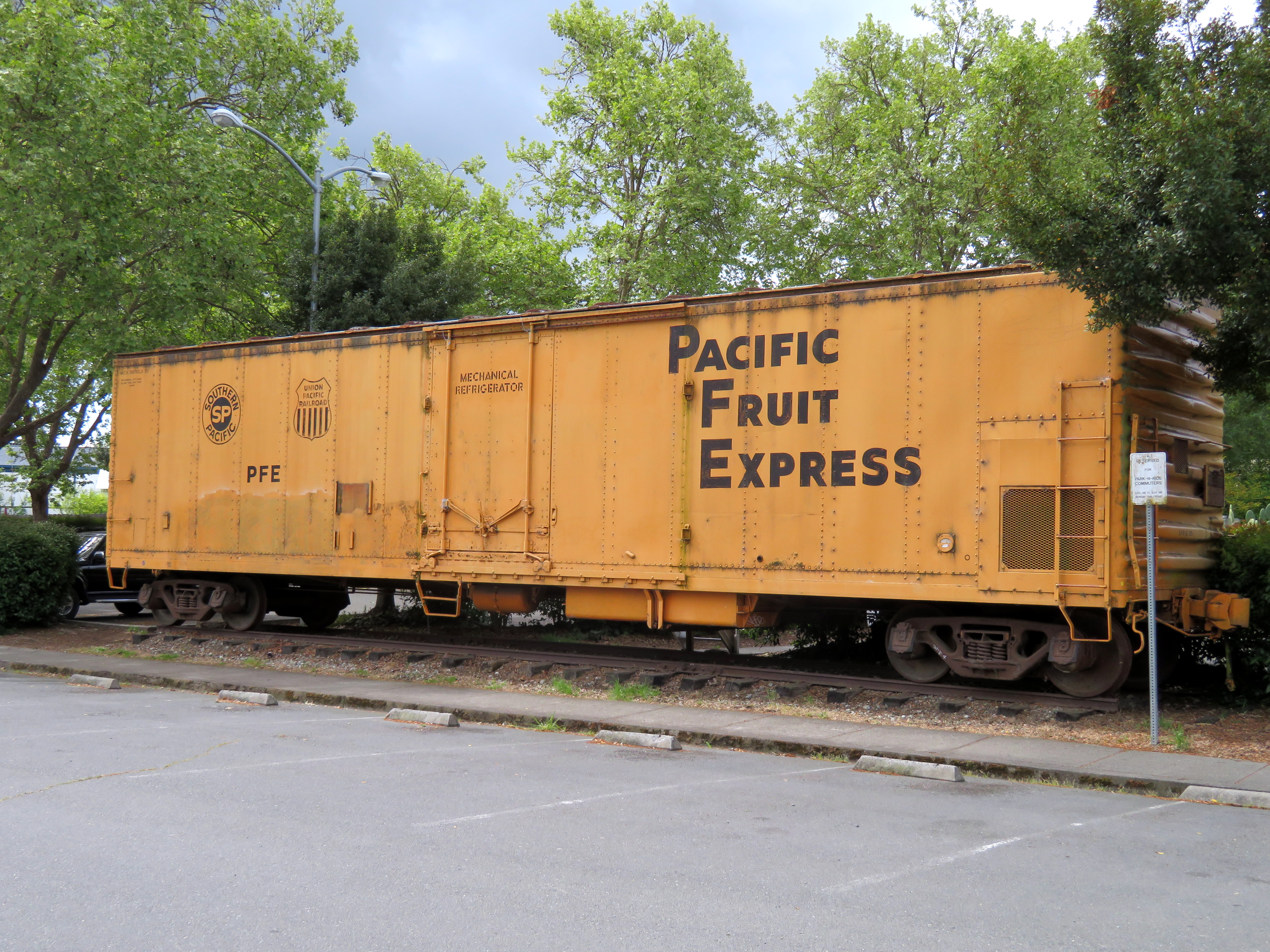 Pacific Fruit Express refrigerator car on display in Sebastopol, California in April 2018